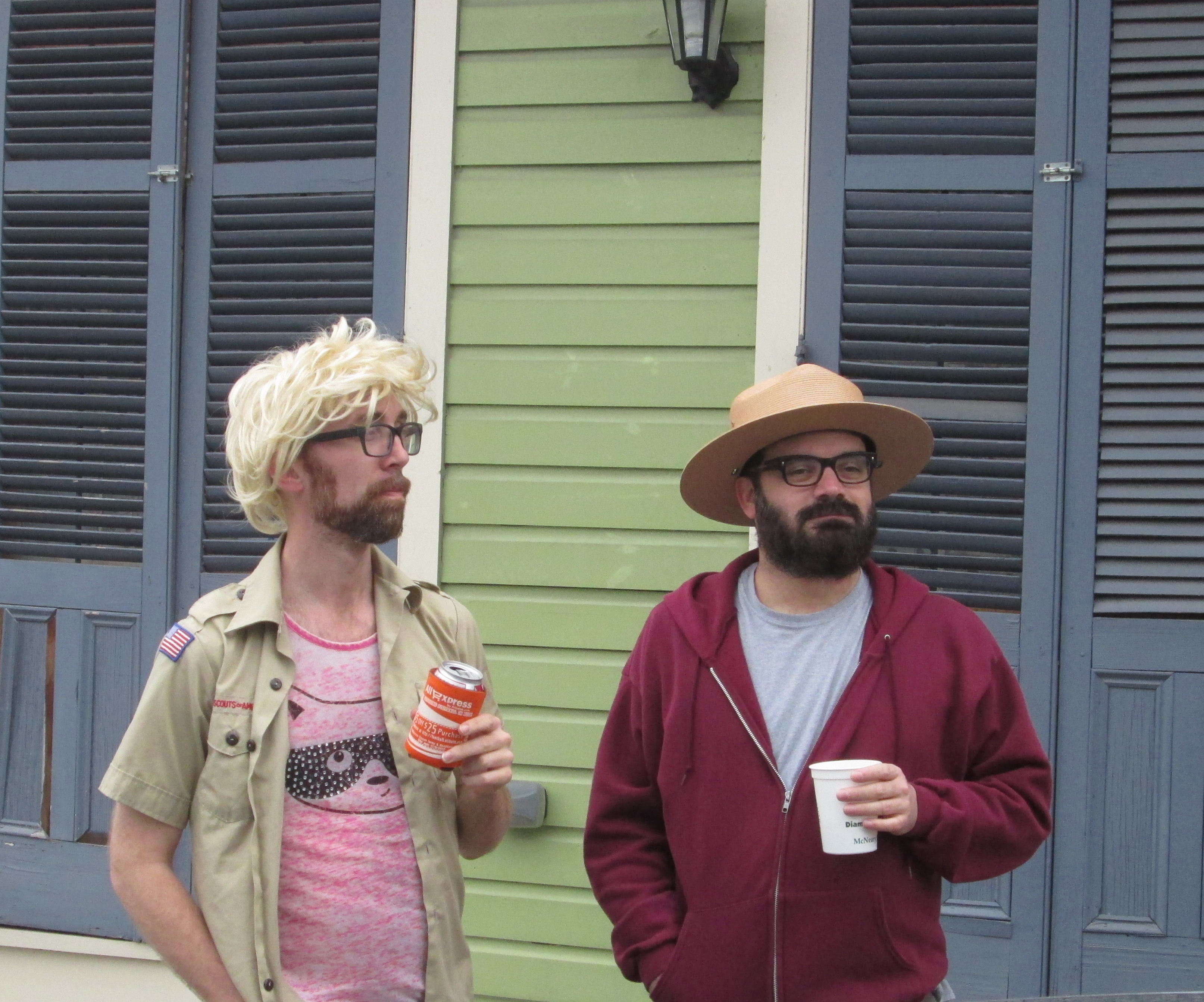 Lundi Gras in New Orleans. Before the start of the Red Bean Parade, Royal Street, Lower Faubourg Marigny